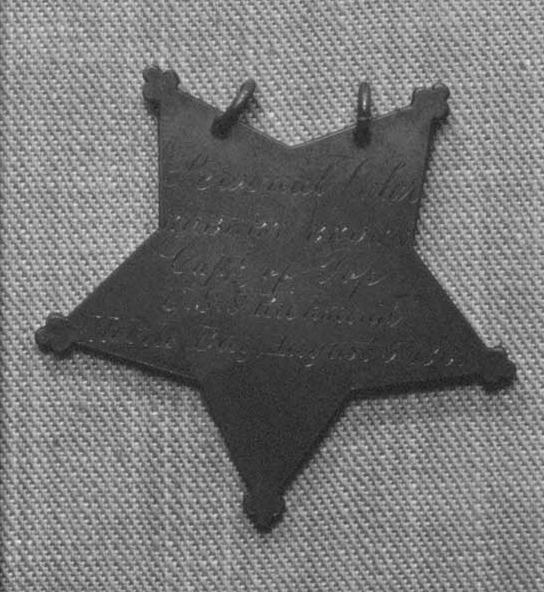 Reverse of a Medal of Honor awarded to Captain of the Top Robert Brown, United States Navy, for courageous performance in his station on board USS Richmond during the Battle of Mobile Bay, Alabama, 5 August 1864.